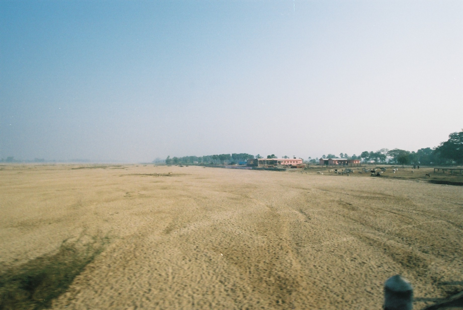 乾季の為、完全に干上がってしまったネーランジャラー川(尼蓮禅河)The dry river bed of the Niranjana River in Bihar, India(2005/01/26 Buddha Gaya, Bihar, INDIA)Niranjana River